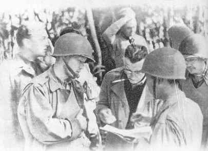 GENERAL STILWELL CONFERS WITH LT. GEN. SUN LI-JEN, MAJ. GEN. LI HUNG AND MAJ. GEN. HO CHUN-HENG